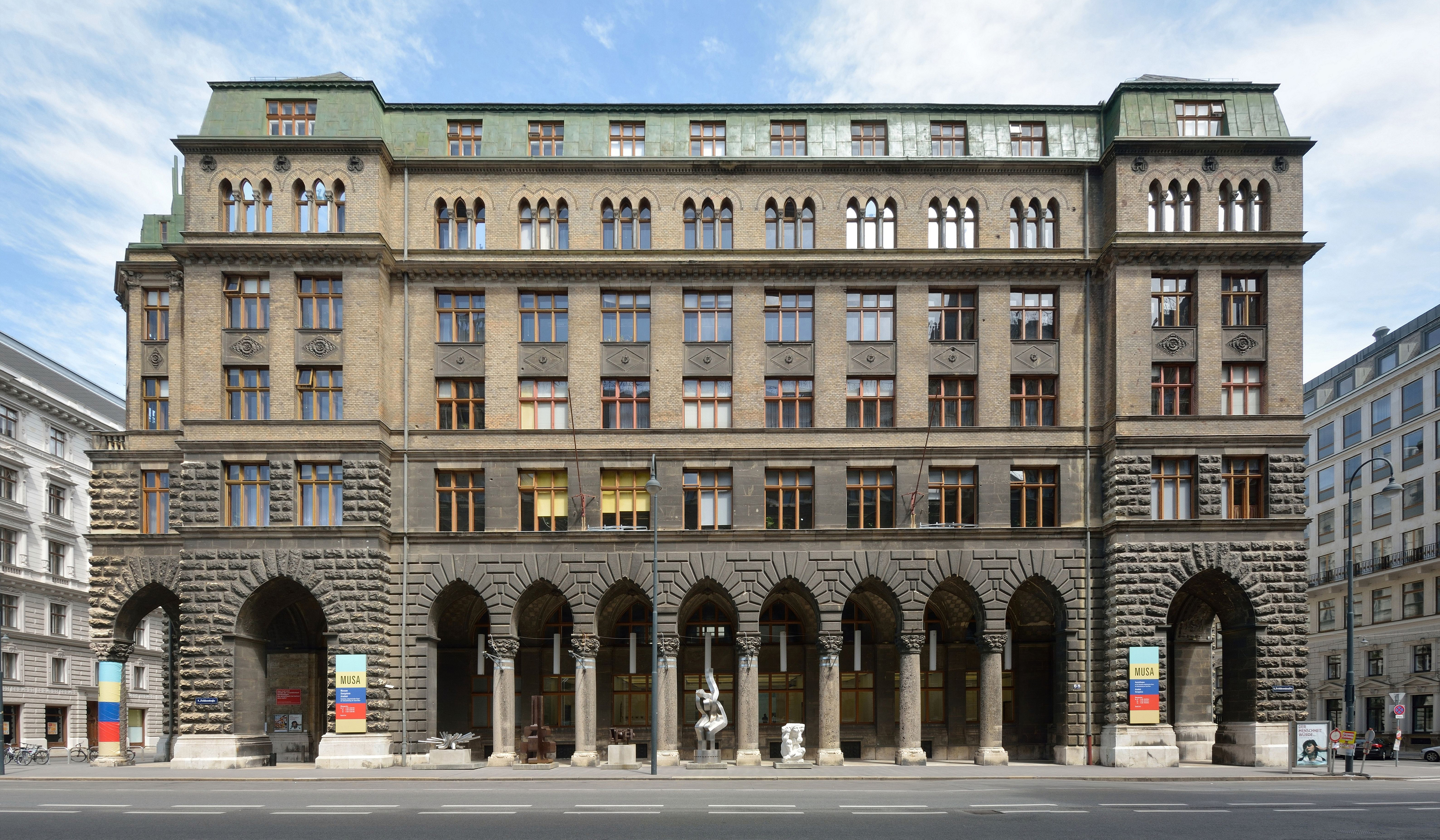 Official building Rathausstraße 14-16, MUSA Museum Startgalerie Artothek, 1st district of Vienna